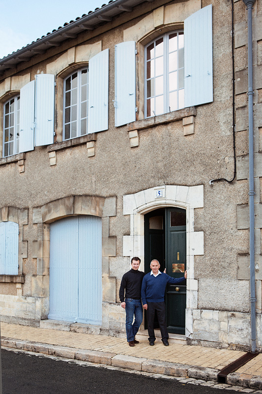 Bache-Gabrielsen Cognac, Christian Bache-Gabrielsen and Hervé Bache-Gabrielsen